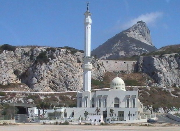 Ibrahim-al-Ibrahim Mosque, Gibraltar, in 2008.